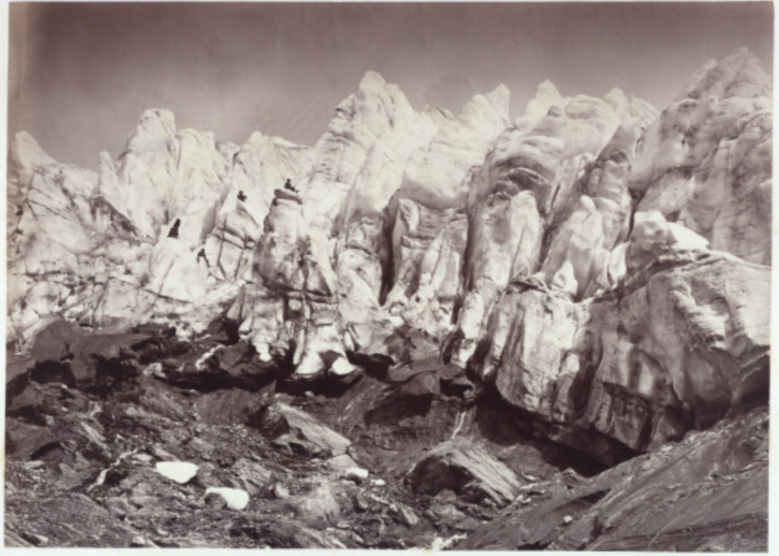 Alps of Austria